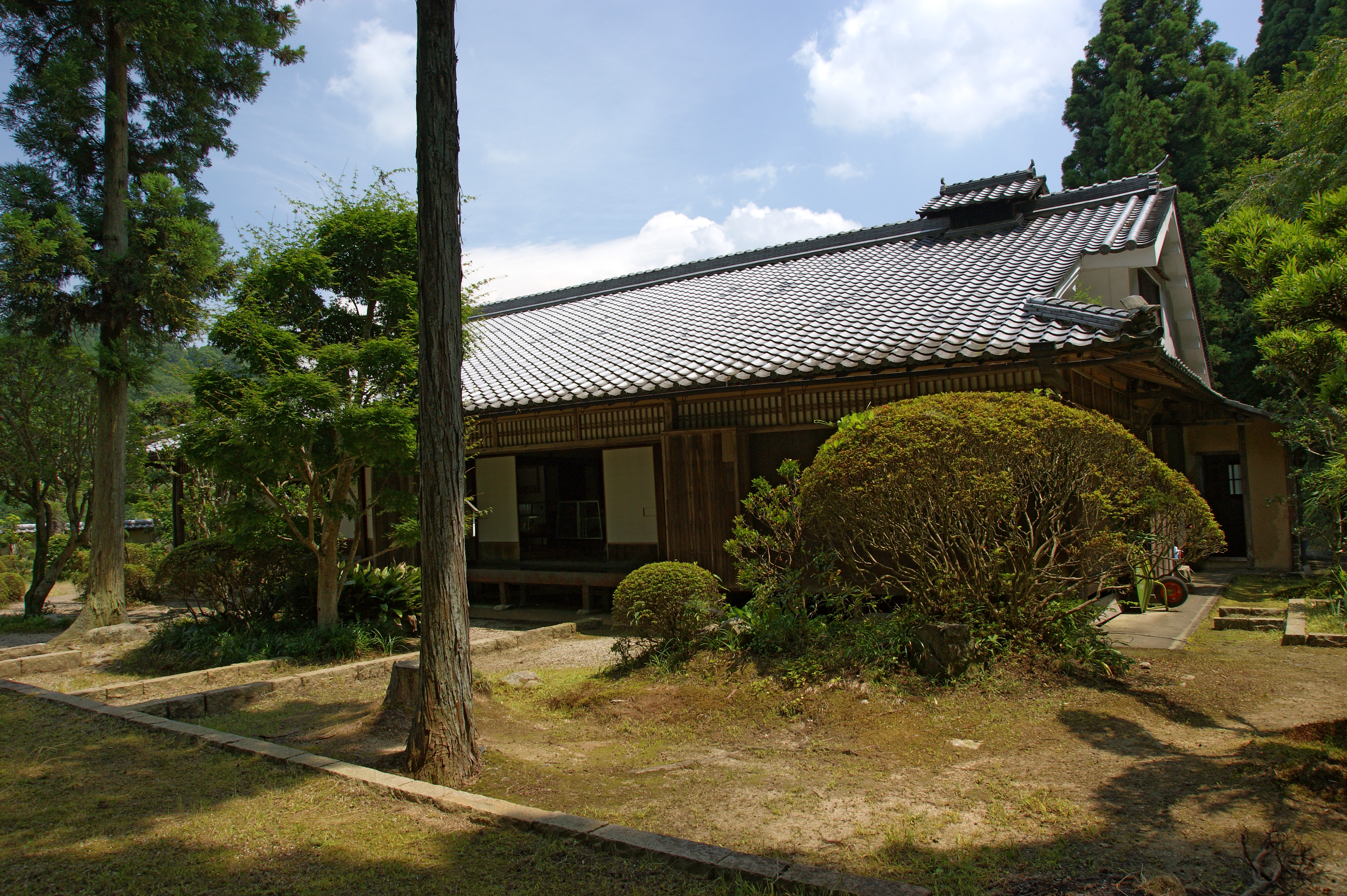 Kyu Yagyuhan karoyashiki in Nara, Nara prefecture, Japan